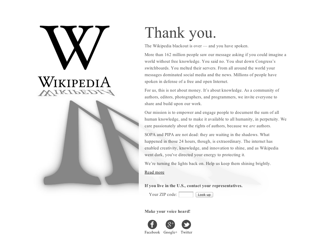 Screenshot of the Wikipedia Anti-SOPA Post-blackout page.